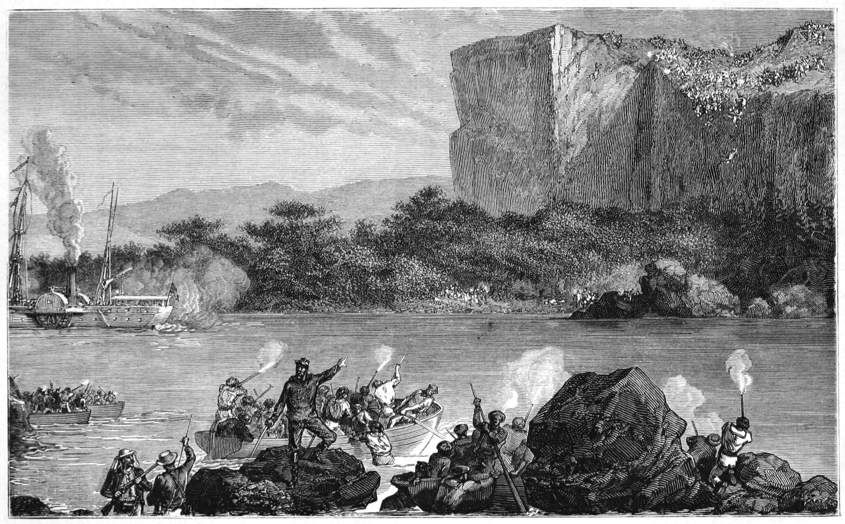 The Breaking Siege of Fort du Médine, 1857